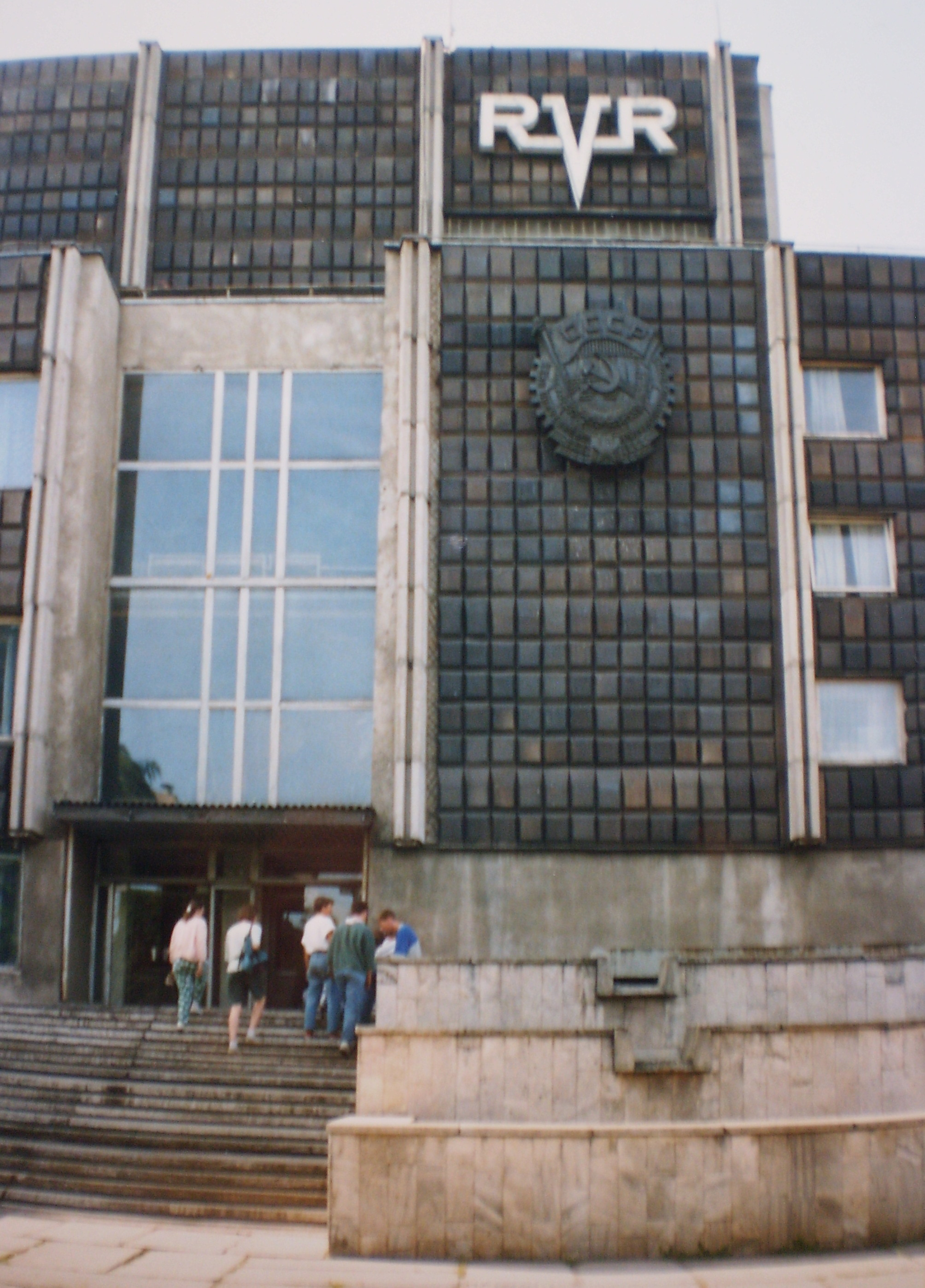 Main entrance of Rīgas Vagonbūves Rūpnīca (RVR) railwagons manufacturing company, Riga, Latvia, 1991